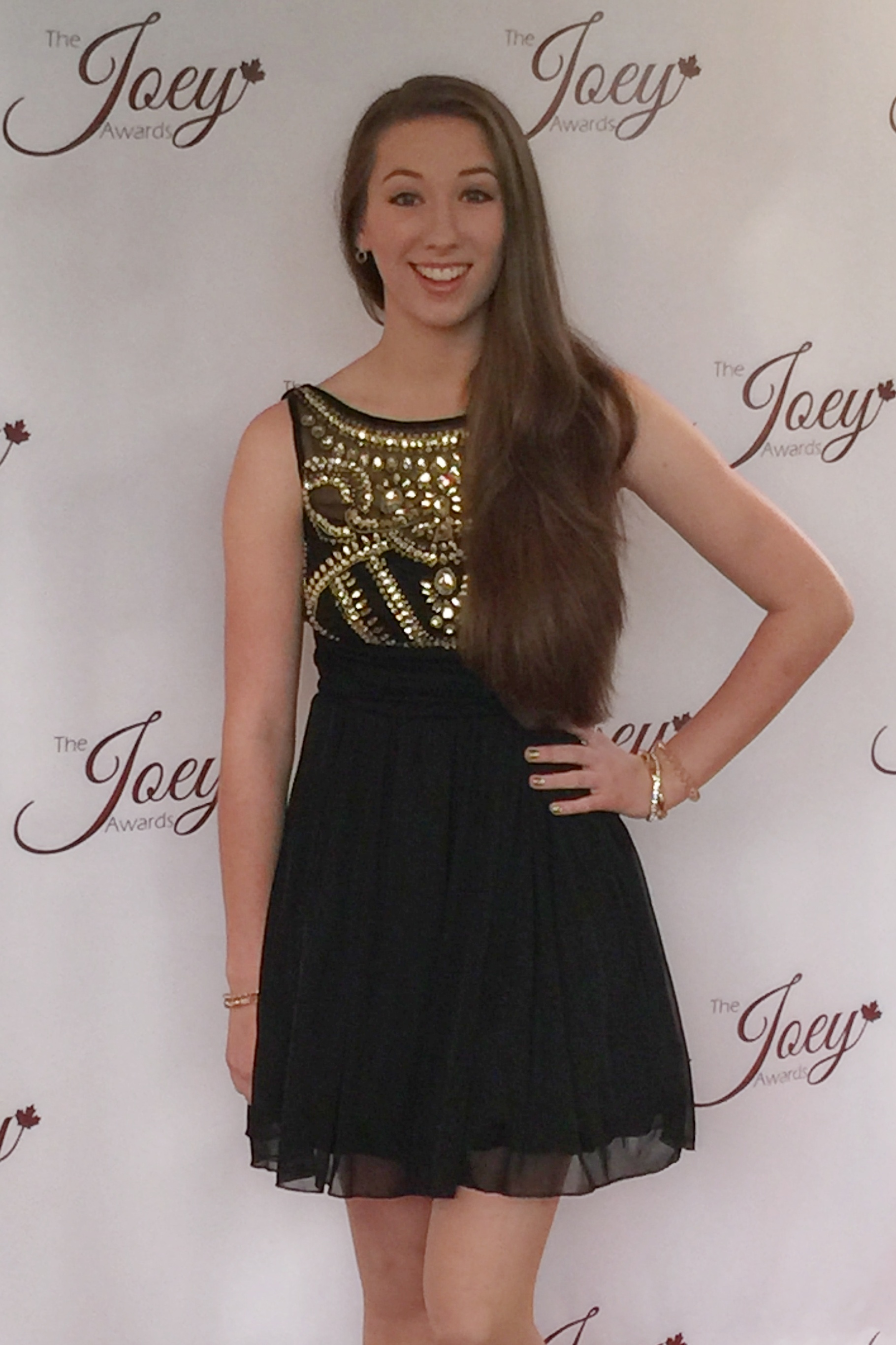 Michelle Creber at the 2015 Joey Awards - Best Voice Actor (Apple Bloom in My Little Pony)